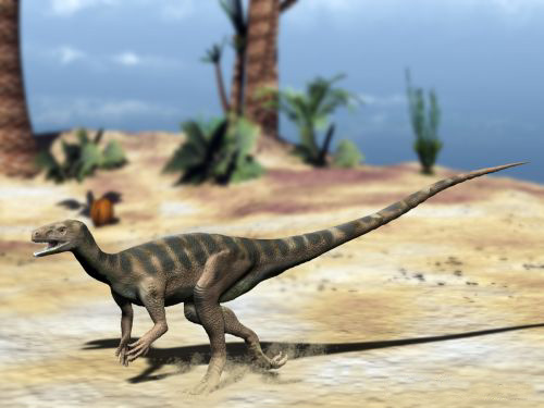 Eodromaeus